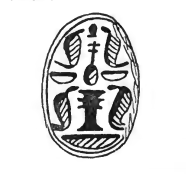 Picture of a scarab of Djedneferre (Dedumose II(?)), now in the Petrie Museum. 13th (or 16th) dynasty, Second intermediate period.